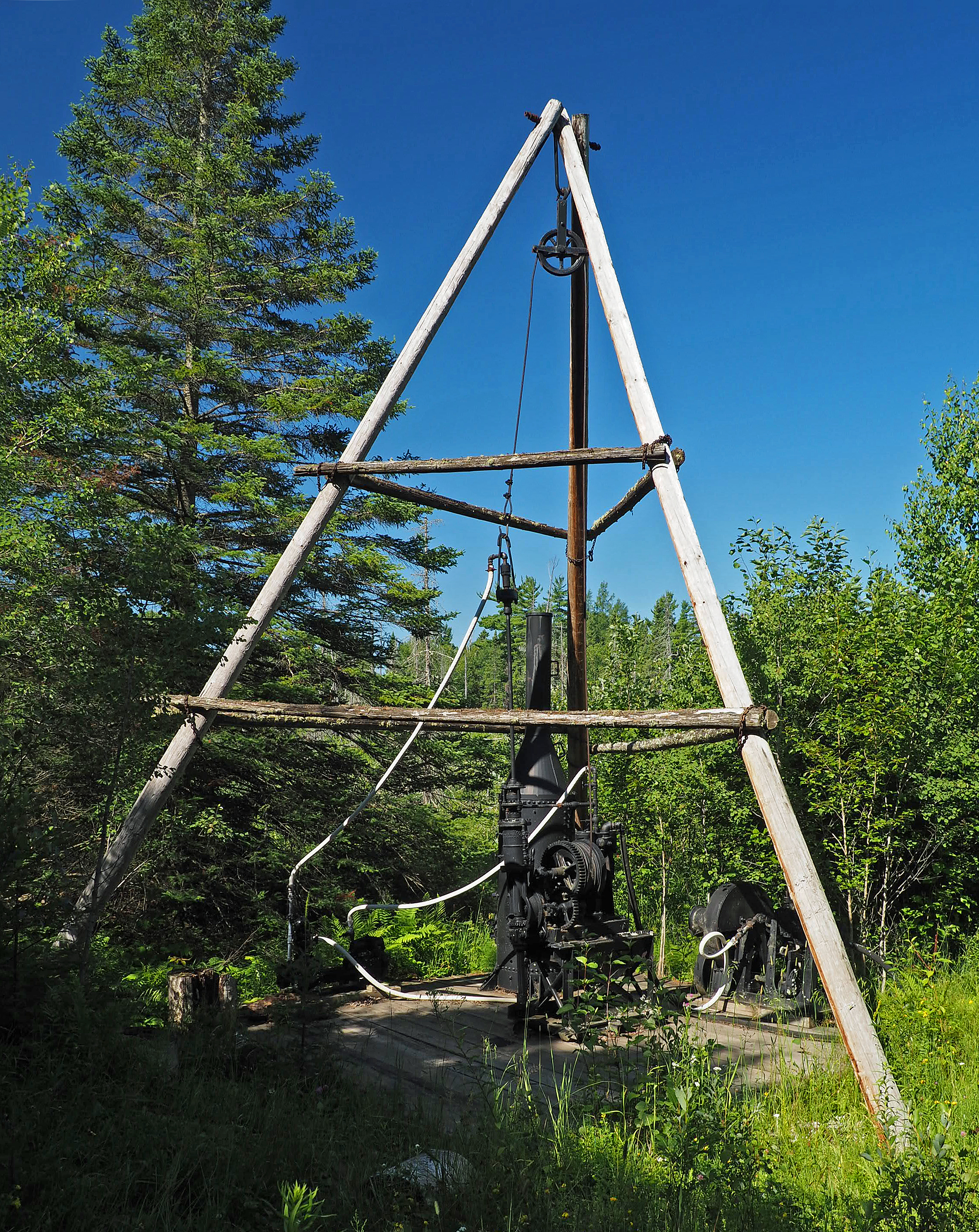 E.J. Longyear First Diamond Drill Site with replica drill rig, 6500 County Rd 666, Hoyt Lakes, Minnesota, USA. Viewed from the northeast.